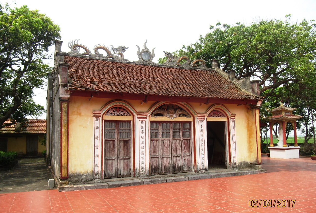 Do Tu Binh Temple in Hưng Tứ village, Hồng Việt commune, Đông Hưng district, Thái Bình province.